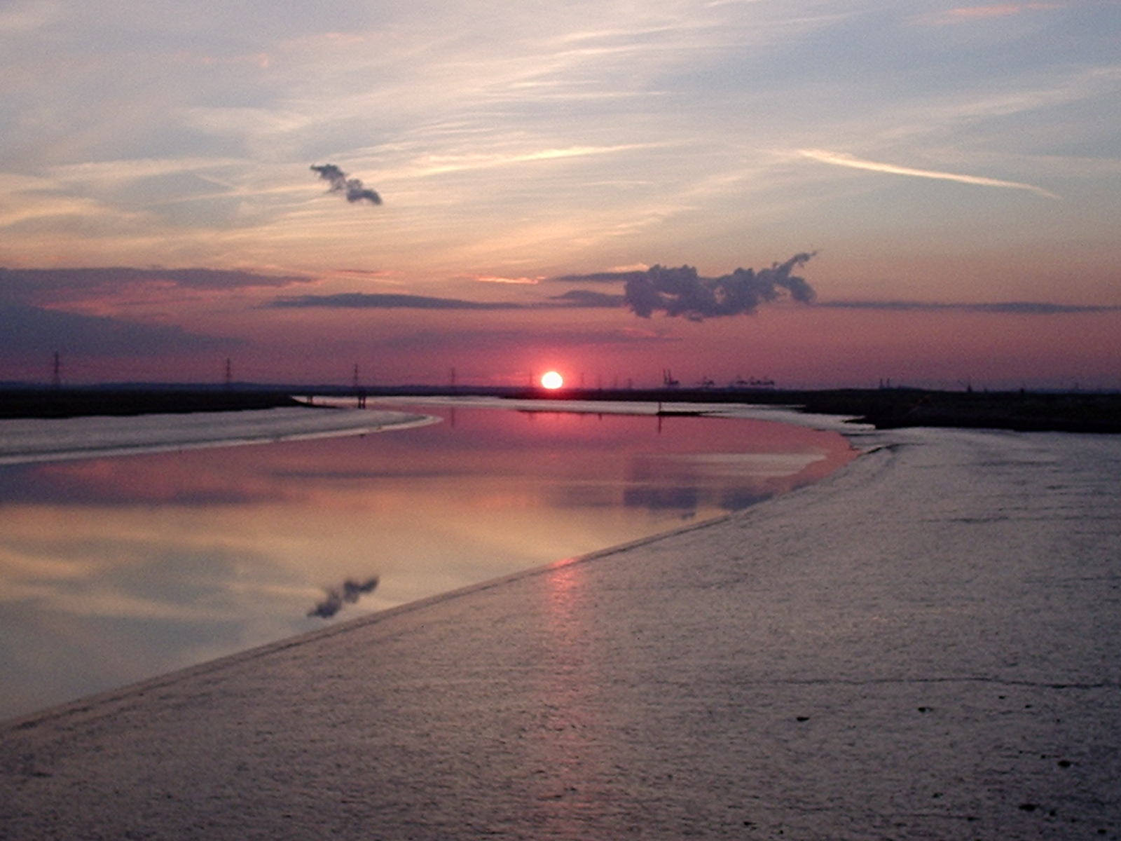 Personal photo taken by Adam Miller on 21st June 2004